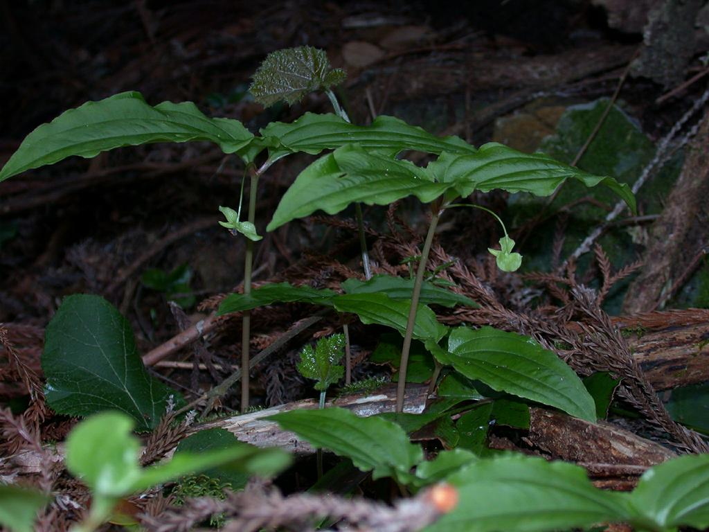 Croomia_heterosepala(Stemonaceae) date:2006.05.03:Sirahama town,Wakayama pref.Japan Author;Keisotyo